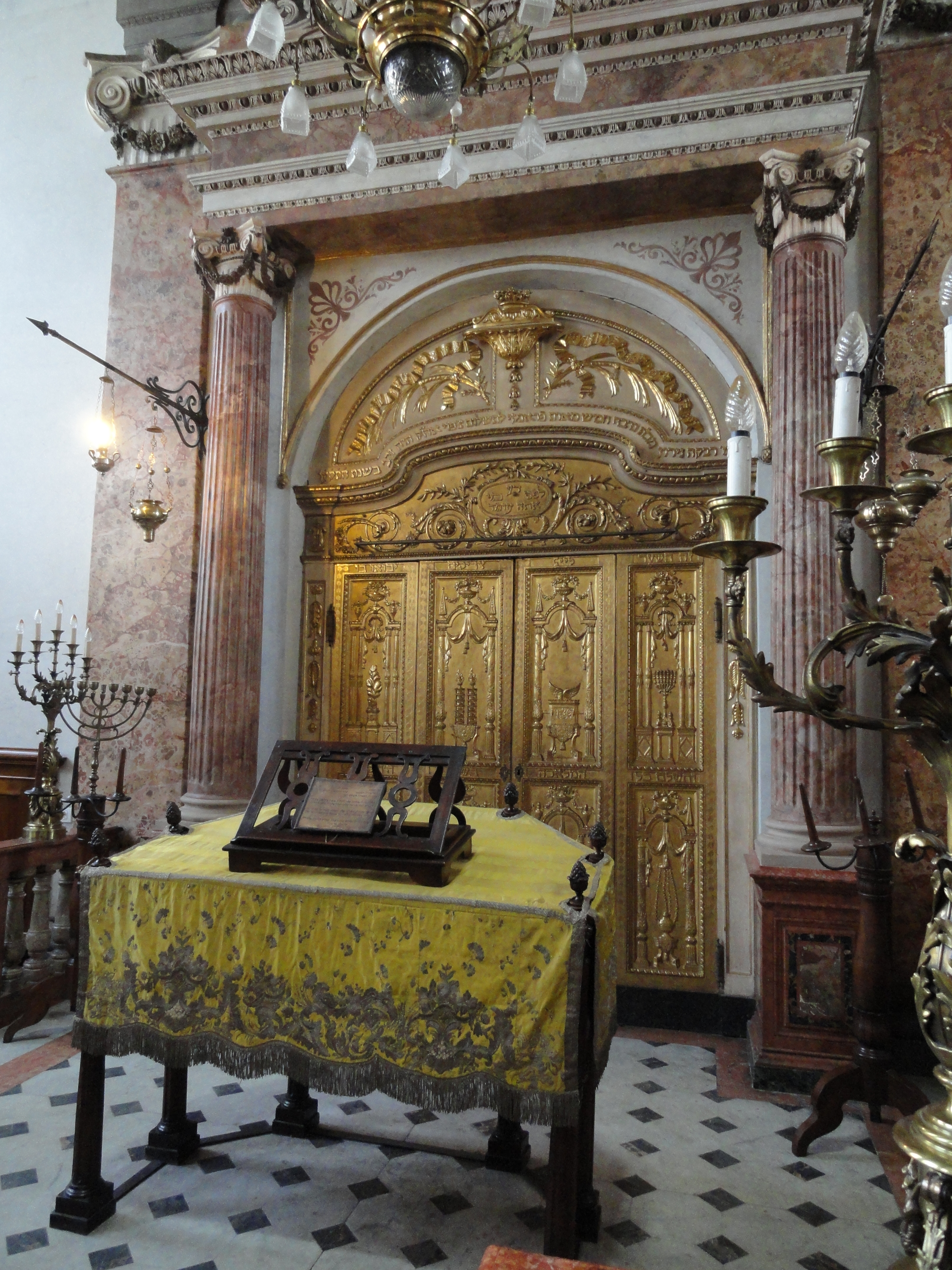 Ark and Bimah of the synagogue of Asti (Piemonte - Italy)